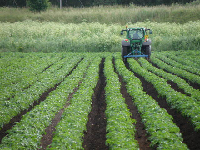 Ridging potato rows on Denton Fen. This operation keeps the soil built up around the roots which prevents green potatoes. It also helps suppress weed growth